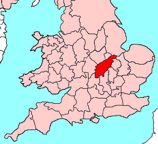 Northamptonshire